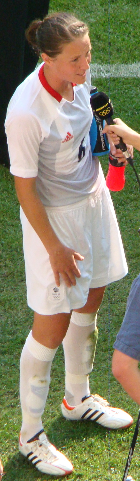 Casey Stoney interviewed